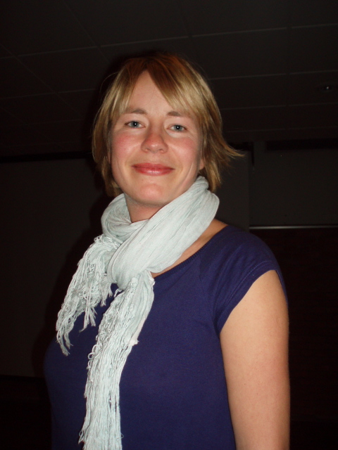 The author Trude Marstein, visiting St. Olav secondary school in Sarpsborg.